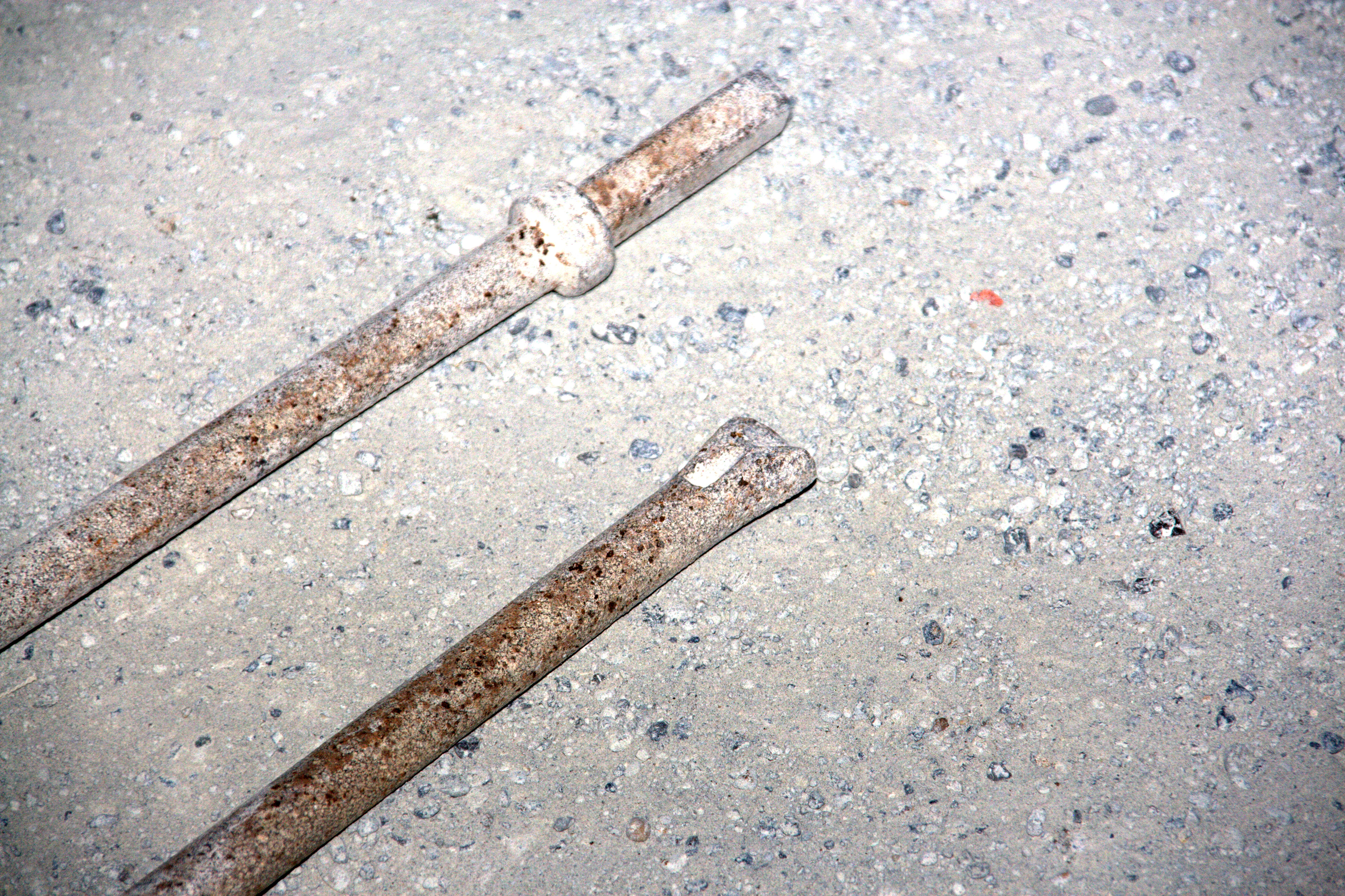 A Stonedrill used in the Goldbacherstollen, Überlingen